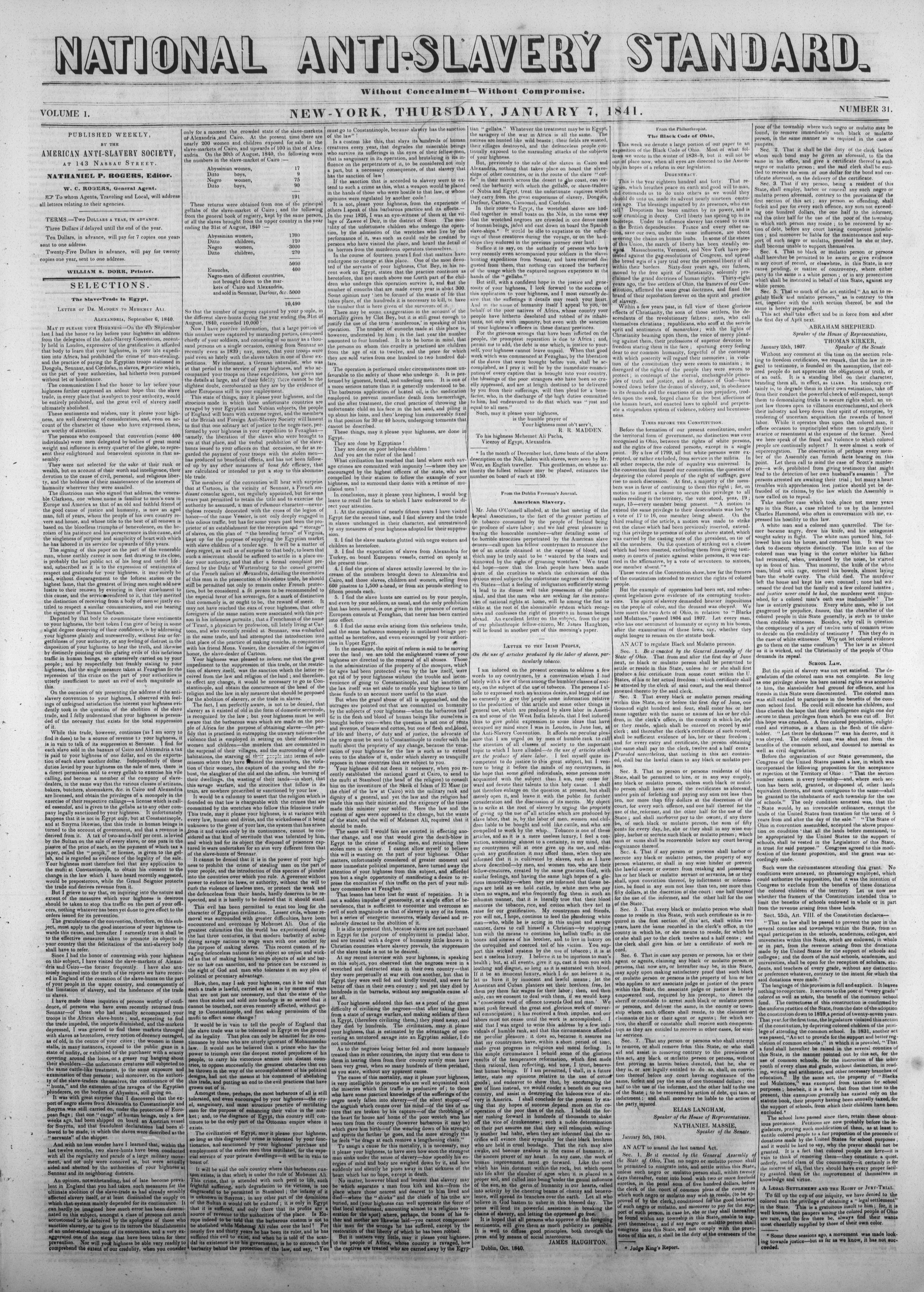 The National Anti-Slavery Standard was the official weekly newspaper of the American Anti-Slavery Society, established in 1840 under the editorship of Lydia Maria Child and David Lee Child.